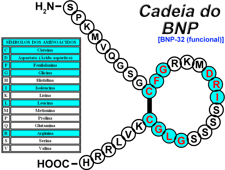 Amino acid sequence of the molecule of the brain natriuretic peptide (BNP) 32 (functional).